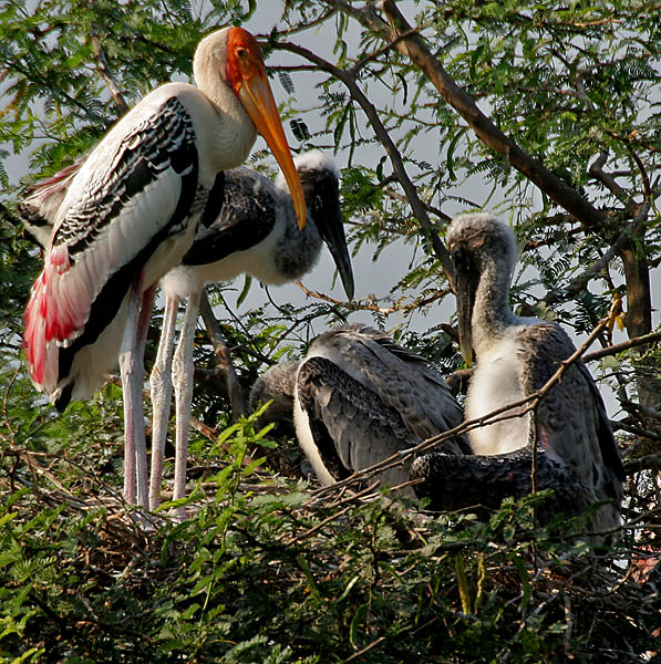 Painted Stork Mycteria leucocephala at Uppalapadu, Andhra Pradesh, India.